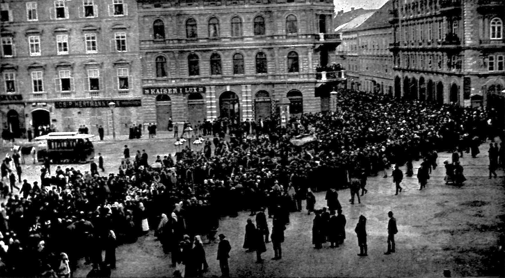 Funeral of Dr. Ante Starčević (scenery at Jelačić Square)